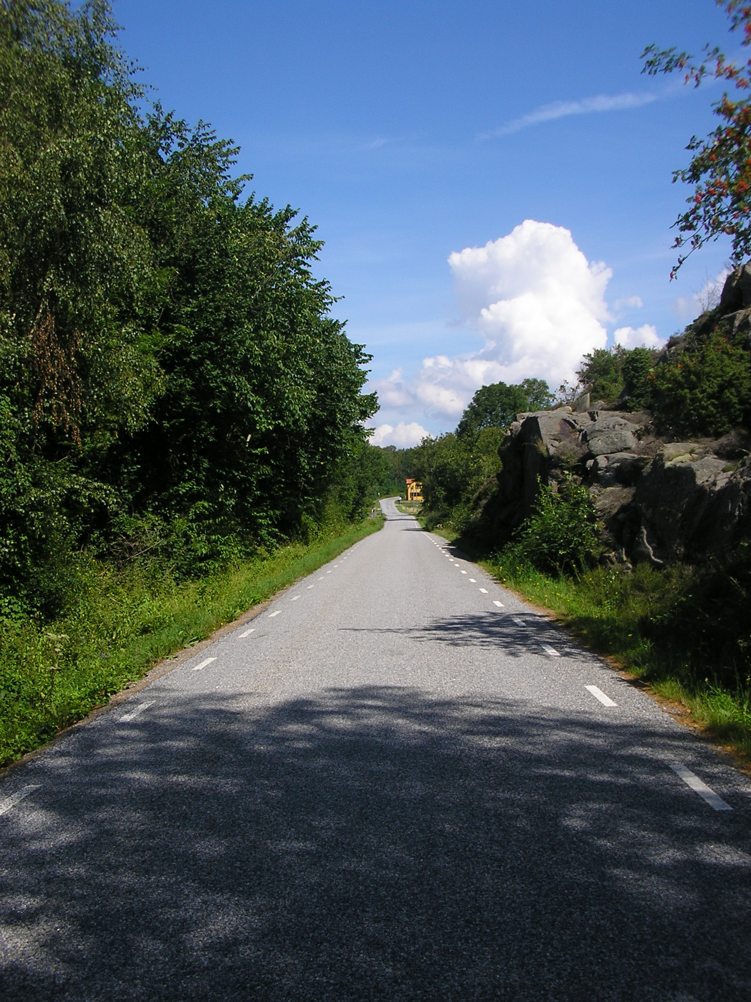 The main road on Härnäset (Bohuslän, Sweden).